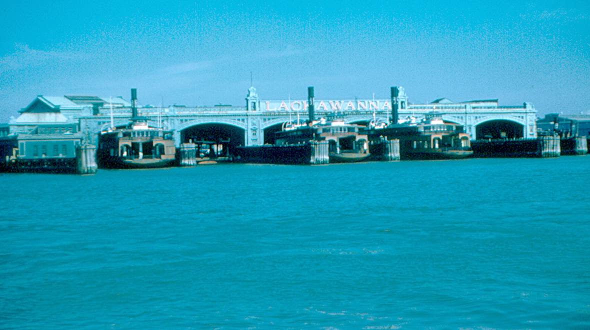 Hoboken Terminal c. 1954